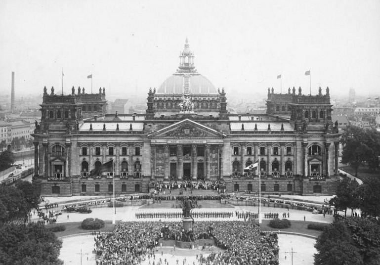 Celebrating the Constitution, parliament building Berlin